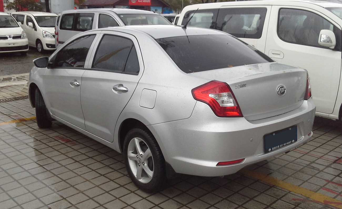 Lifan 530 photographed in Shanghai, China.